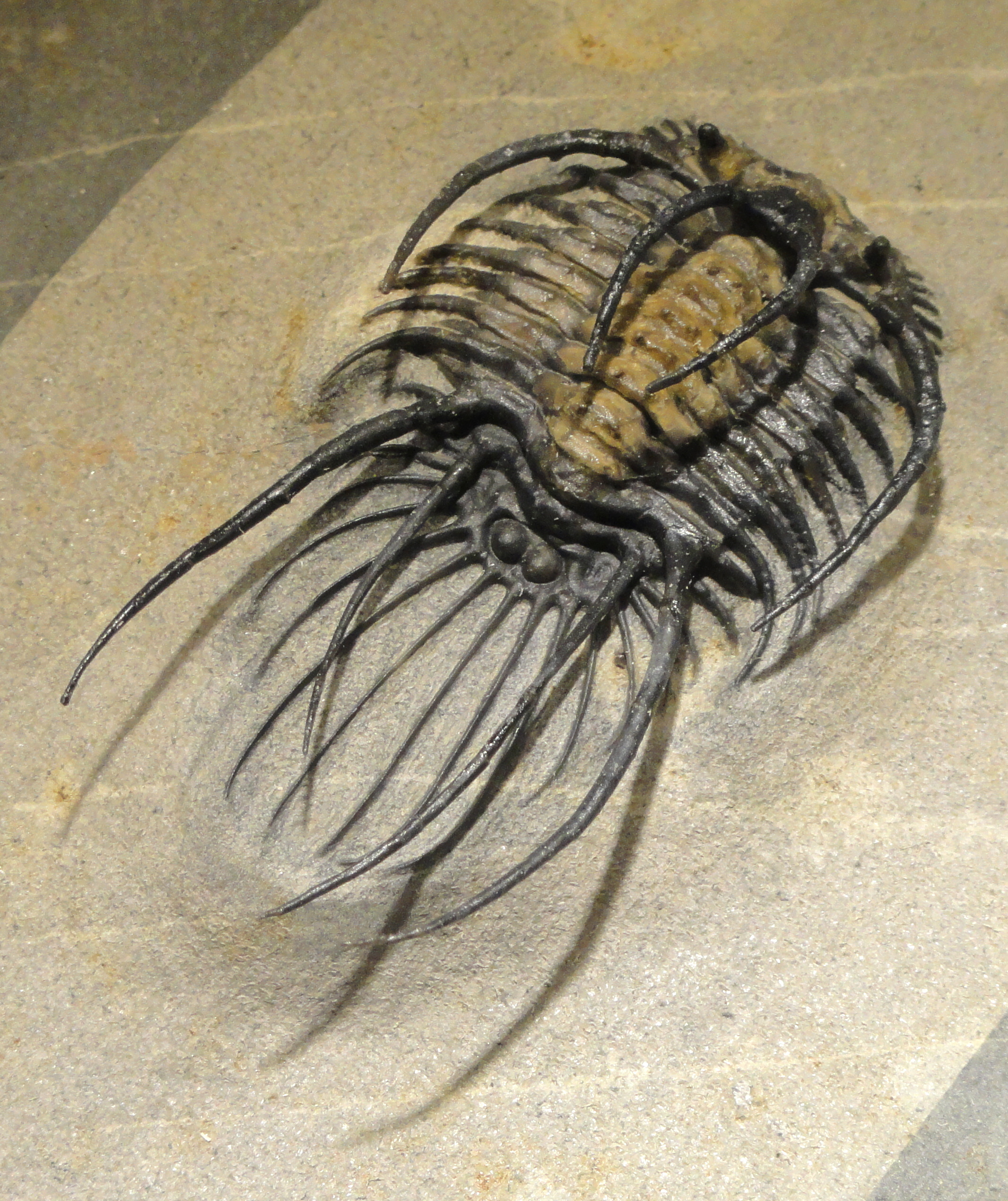 Exhibit in the Houston Museum of Natural Science, Houston, Texas, USA.